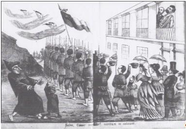 Patricio Ibarra Cifuentes escribe: “Salve, Caesar imperator! Morituri te salutant” (¡Salve, César emperador! Los que van a morir te saludan) dicen las tropas chilenas mientras desfilan ante la presencia del presidente de la república Domingo Santa María y José Francisco Vergara, ante la atenta mirada de un grupo de civiles, del padre Cobos y de su sacristán. Nótese como Santa María está caracterizado como emperador romano, probablemente aludiendo también a su sobrenombre de “Su Majestad Domingo VII”. Los soldados avanzan hacia donde se encuentran tres cadavéricos espectros, en cuyas gorras se lee: tercianas, dinamita y fiebre amarilla, tres de sus más fieros enemigos durante las penurias de la campaña. La caricatura fue publicada en El Padre Cobos el 12 de mayo de 1883, en las postrimerías de la Campaña de la Sierra, con toda seguridad la más penosa de las que enfrentó por el Ejército chileno durante el conflicto.